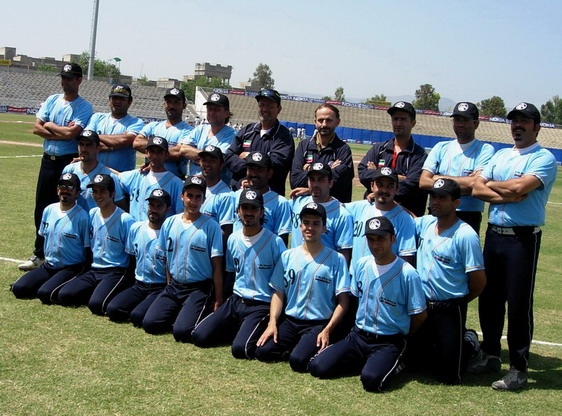 Iran National Team In Pakistan Photo taken by Me in Pakistan